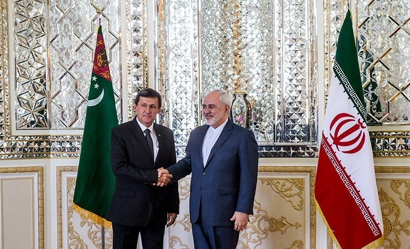 Iranian Foreign Minister Mohammad Javad Zarif meeting with Turkmen Deputy Prime Minister and Foreign Minister Rashid Meredov